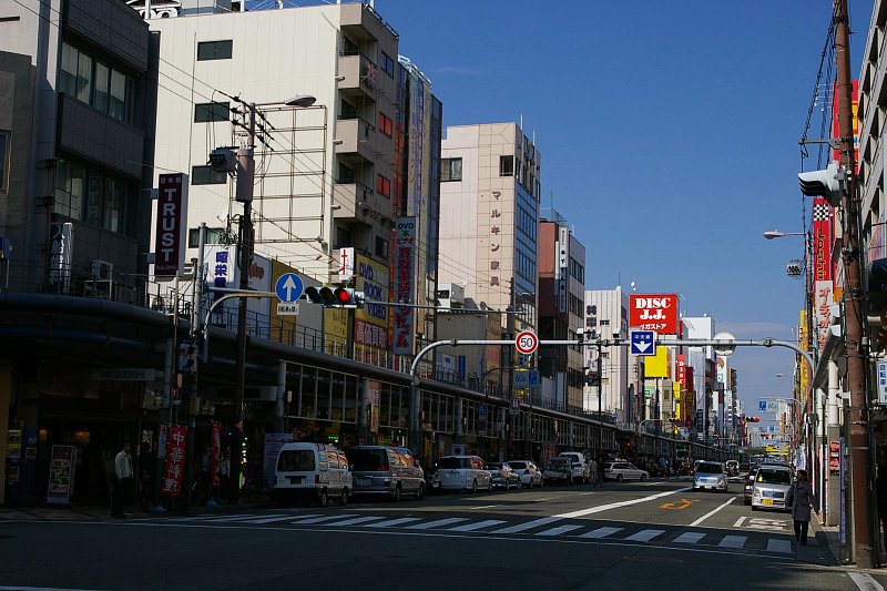 Electoric Market - Denden Town, Naniwaku, Osaka City, Japan.